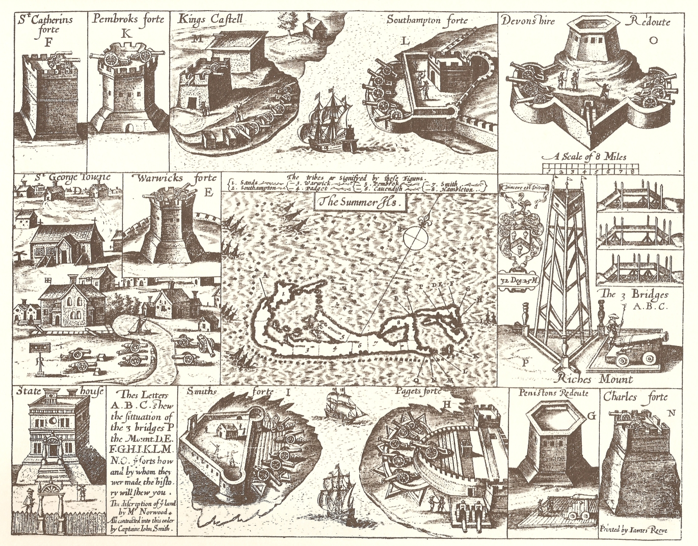 1624 Map of Bermuda, with illustrations of fortifications and importand sites, including St. George's, Bermuda (the town), the State House, Bermuda, and the Castle Islands Fortifications, Bermuda